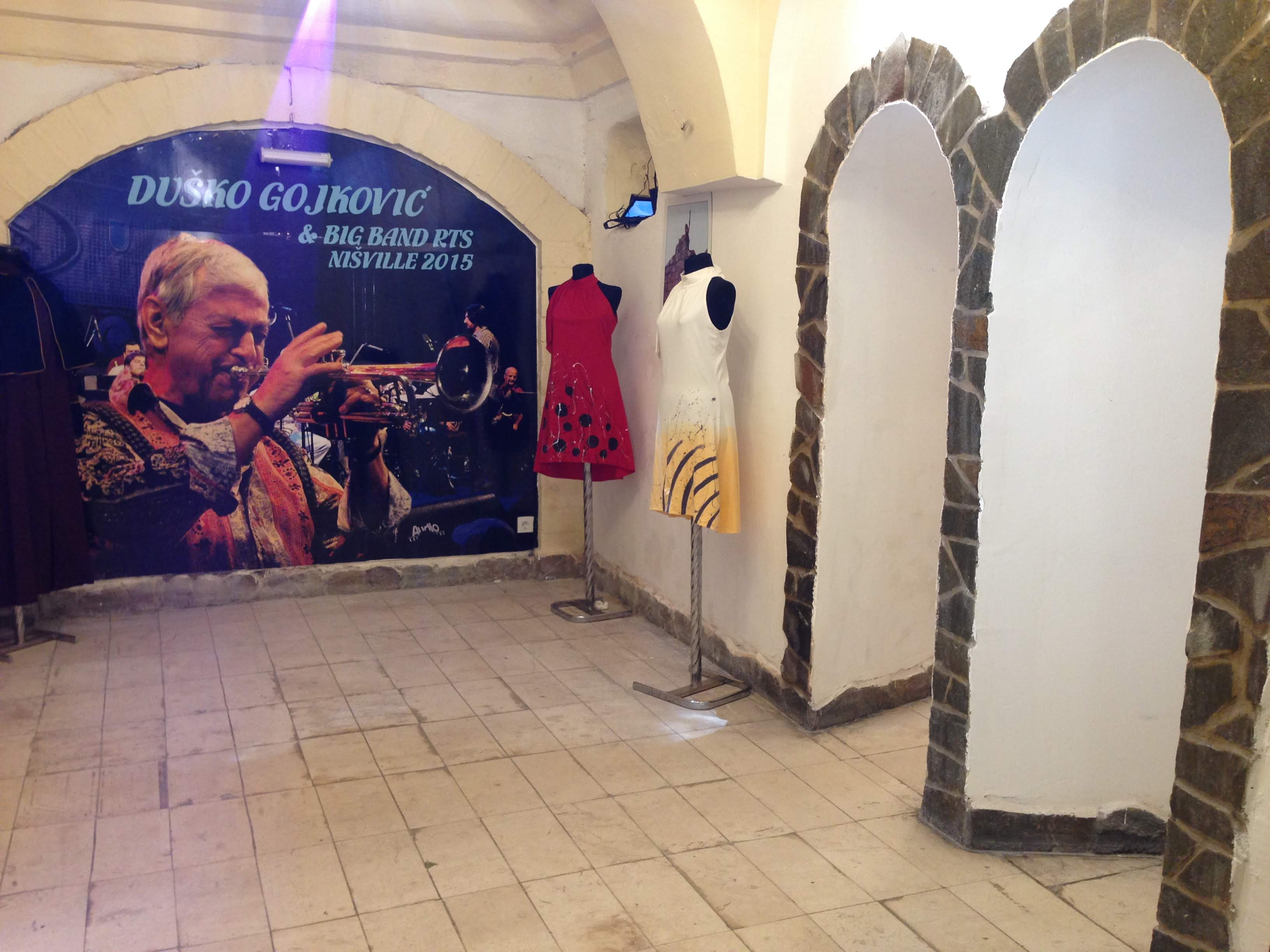 The interior of the Nisville Jazz Museum